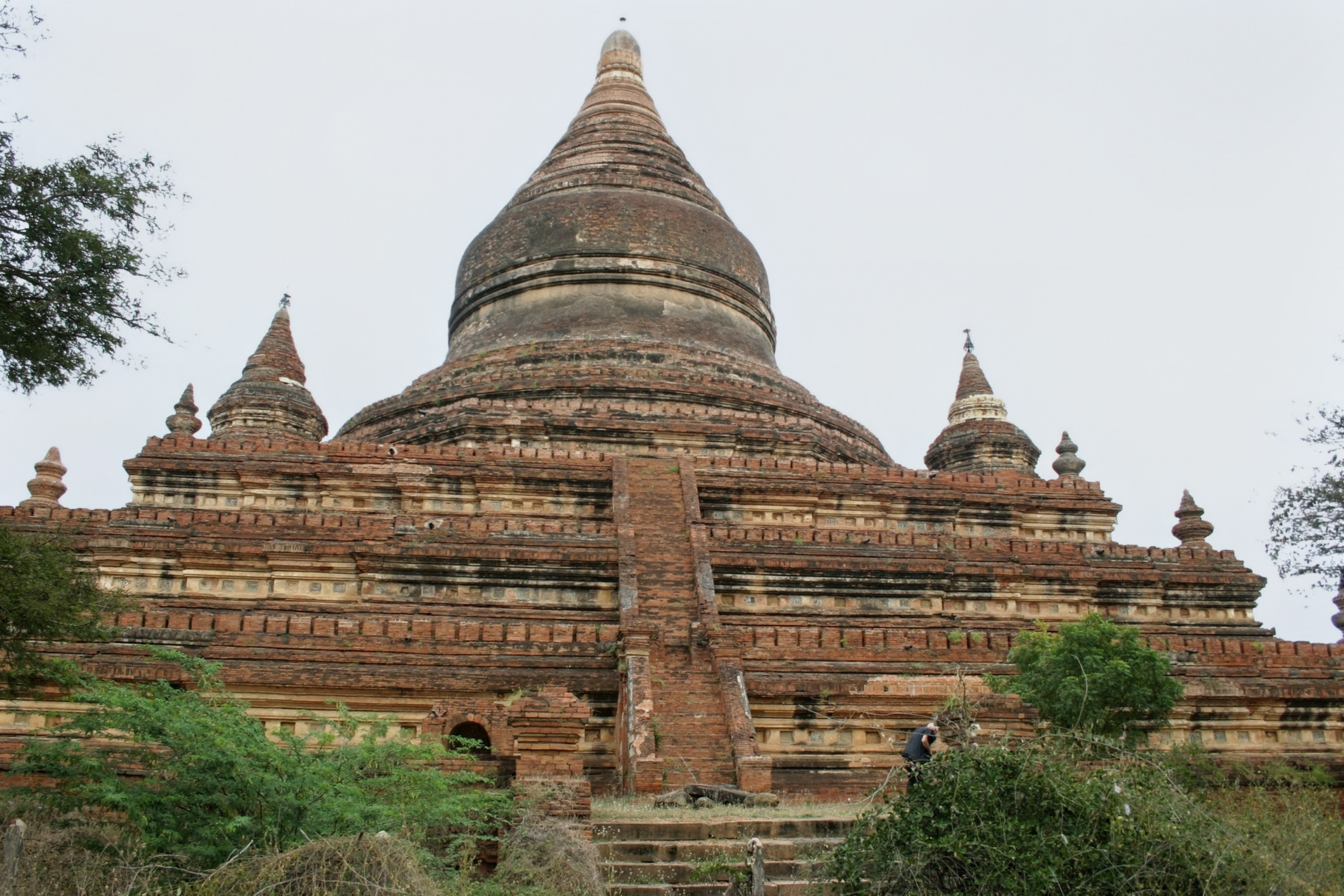 Mingalazedi temple, Bagan, Myanmar.